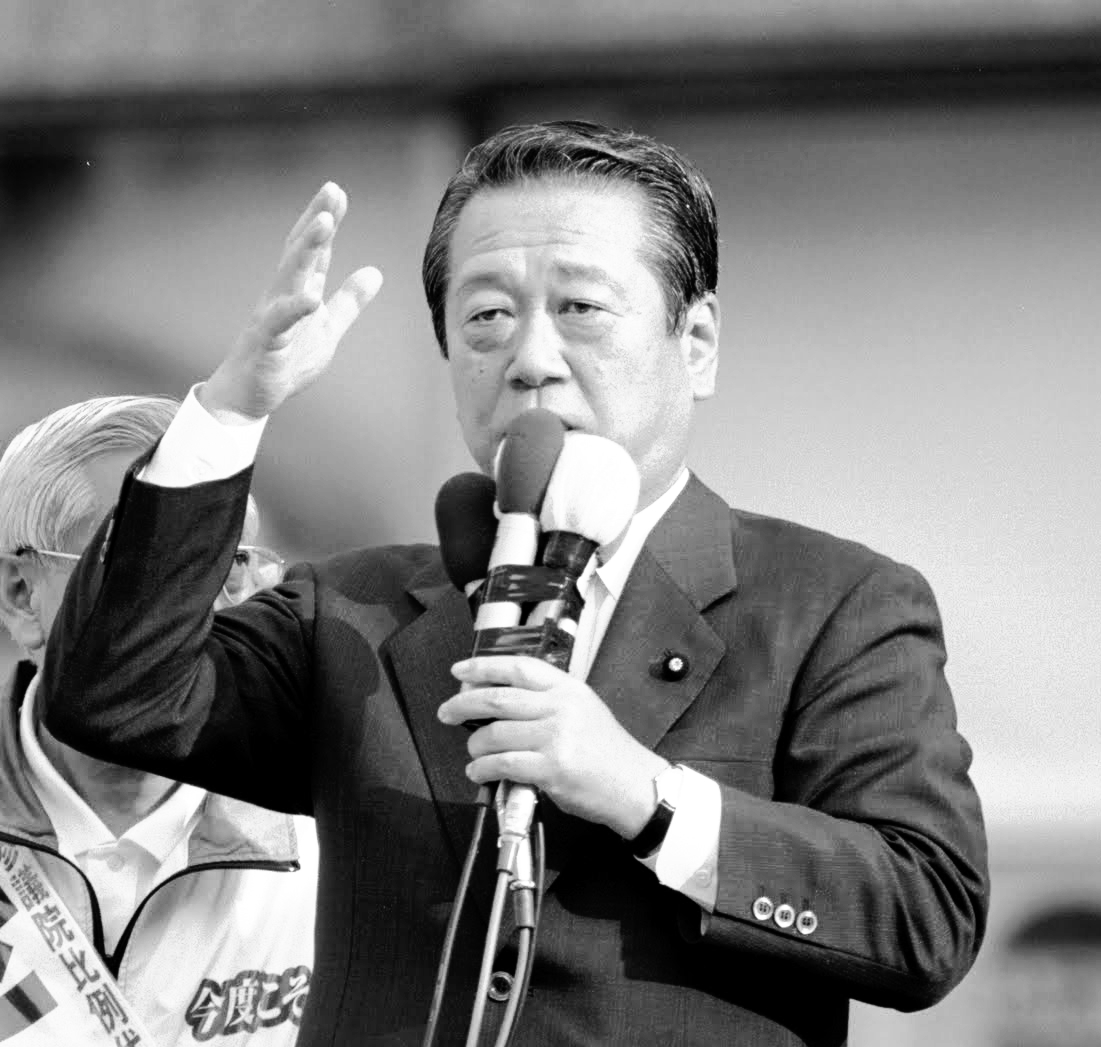 Ichirō Ozawa, President of the Liberal Party, made a campaign speech for Yoshitaka Kimoto, Candidate for Member of the House of Councillors, in Hokkaidō on July 18, 2001.